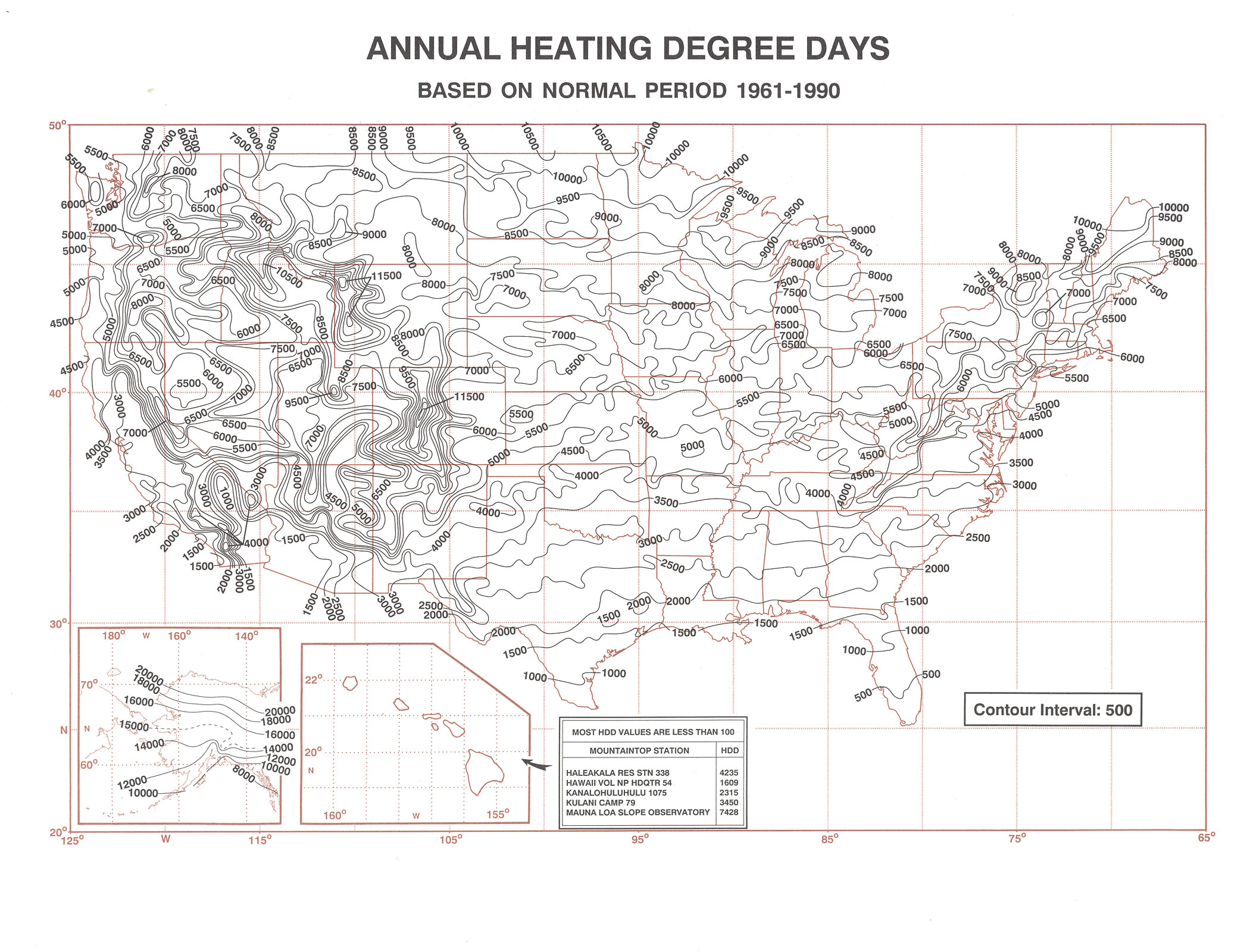 Annual heating degree days in the United States, based on normal period 1961-1990.